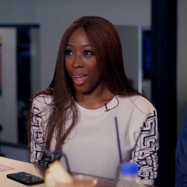 NdaniRealTalk S2E1 : "So She's Dressed Provocatively ..."Nicole Asinugo is joined by Lola Adamson, DJ Obi, Eniola Abumere & Beverly Naya